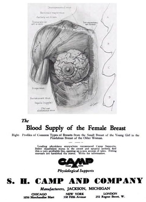 This work is in the public domain in the United States because it was published in the United States between 1923 and 1977 without a copyright notice. See this page for further explanation. Note that it may still be copyrighted in jurisdictions that do not apply the rule of the shorter term for US works (depending on the date of the author's death), such as Canada (50 p.m.a.), Mainland China (50 p.m.a., not Hong Kong or Macao), Germany (70 p.m.a.), Mexico (100 p.m.a.), Switzerland (70 p.m.a.), and other countries with individual treaties.